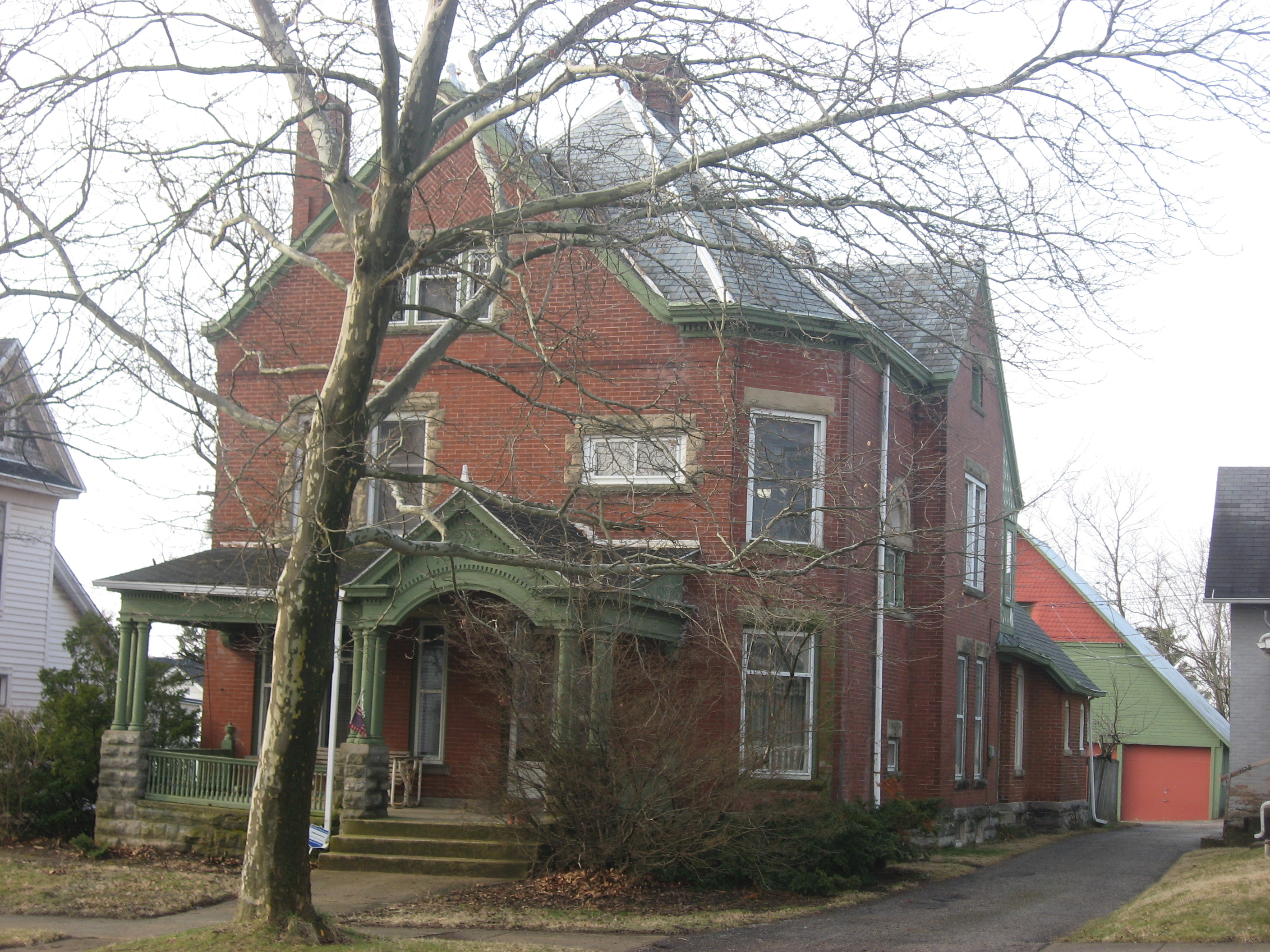 Front and northern side of the Jeff Kimball House, located at 115 N. Main Street (State Route 29) in Mechanicsburg, Ohio, United States. Built in 1897, it is listed on the National Register of Historic Places.